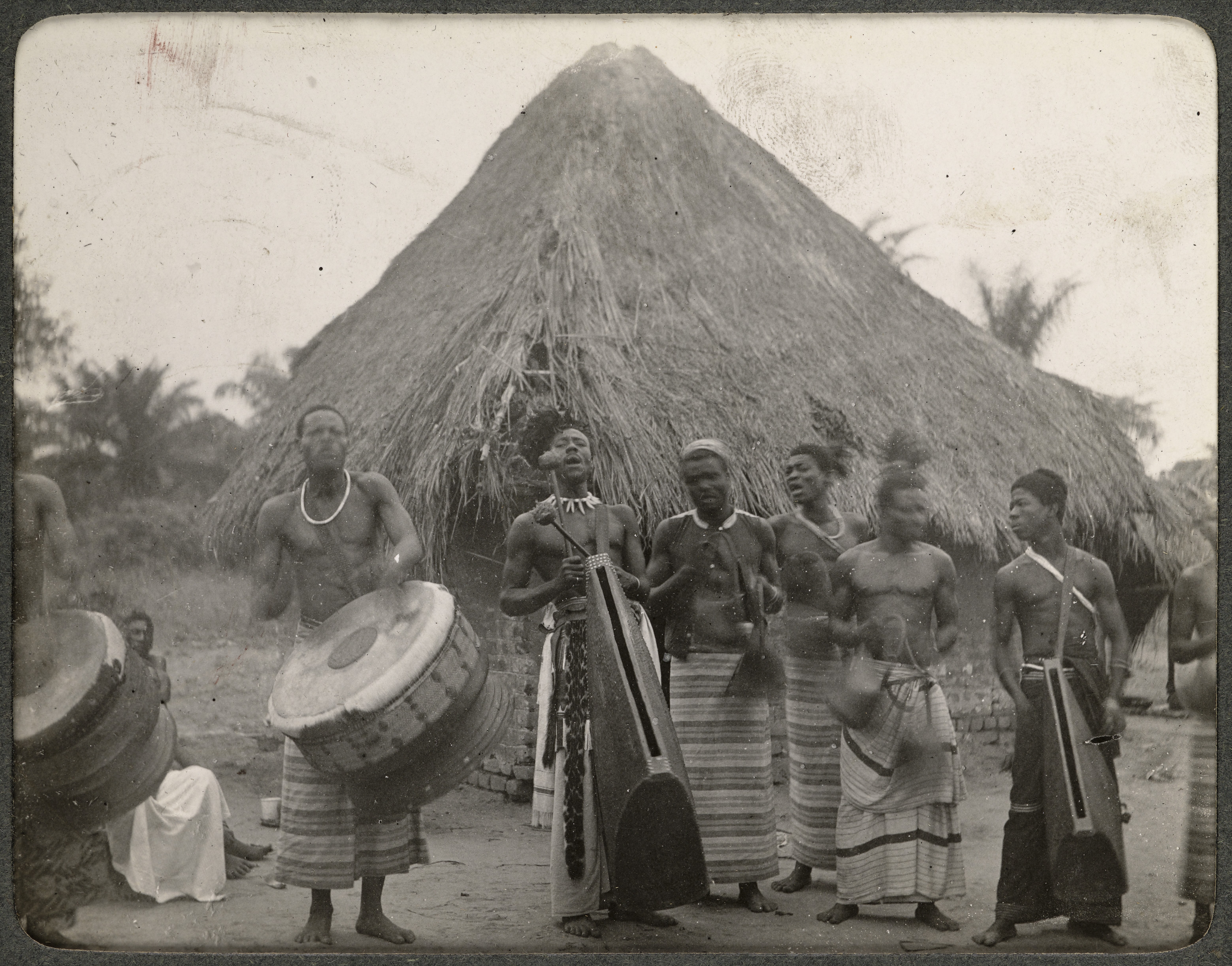 Hand-written caption: 'A native band owned by Lukala, [chiefteners] at Lusambo' From Volume 5 of a collection of 7 albums containing photographs taken during the Tenth (Trypanosomiasis) Expedition to the Gambia and French Senegal in 1902, and the Twelfth (Trypanosomiasis) Expedition to the Congo Free State in 1903, sent out by the Liverpool School of Topical Medicine. Archives & Manuscripts